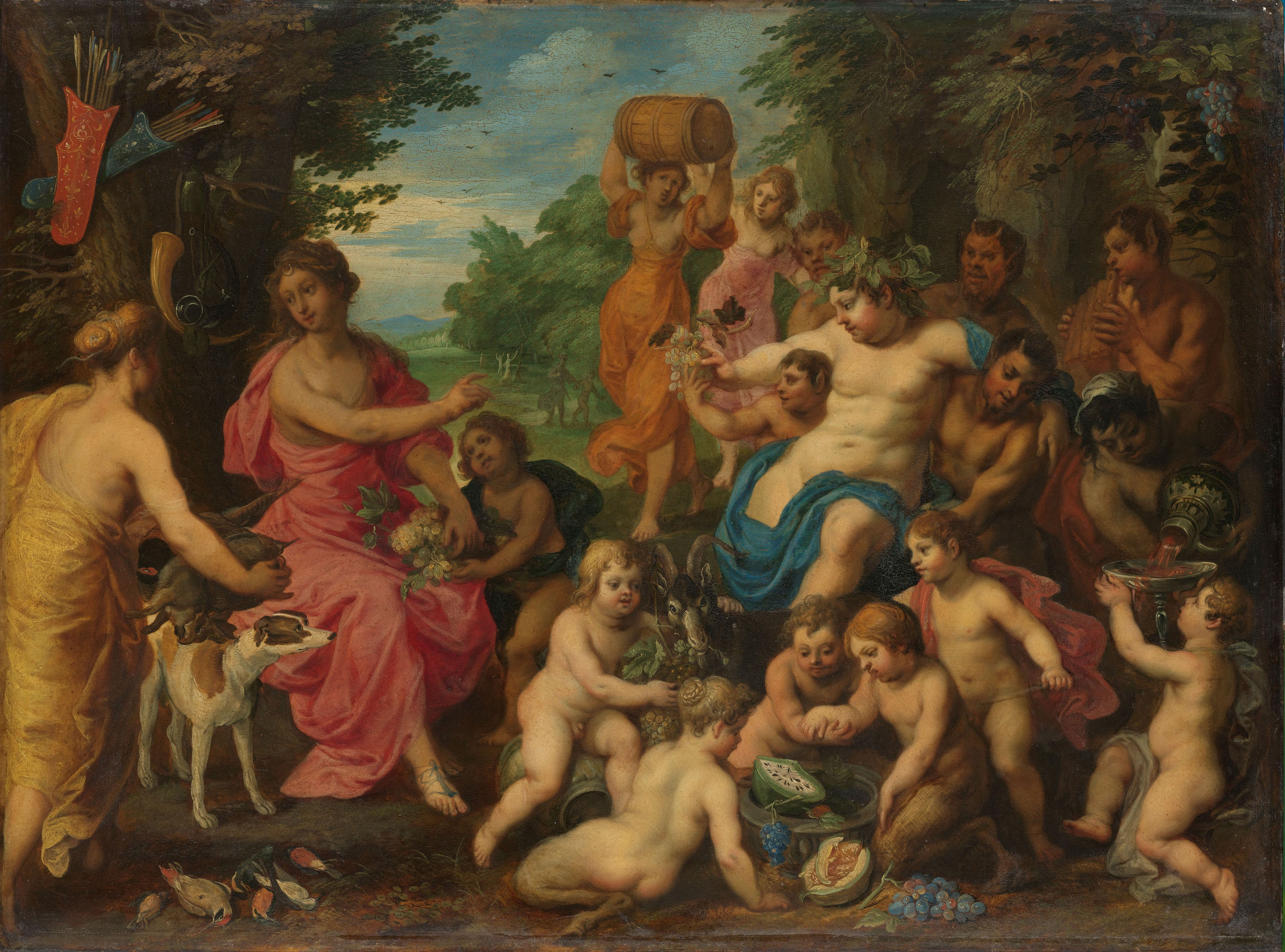 Bacchanal with Bacchus and Diana. Bacchus is surrounded by satyrs and children, who drink, vomit and play music. At his feet a goat is eating grapes. Diana is accompanied by nimphs and a hound. Behind her hunting gear including two quivers and a horn is hanging on a tree.